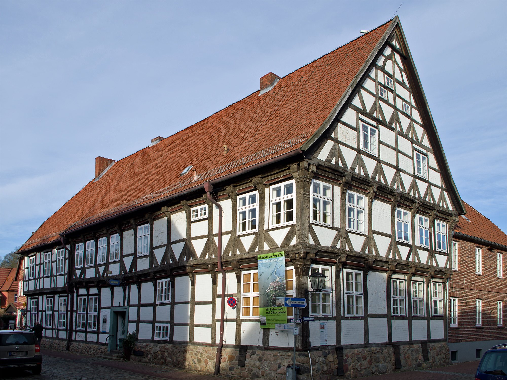 Museum "Altes Zollhaus" in Hitzacker (Elbe) (district Lüchow-Dannenberg, northern Germany).